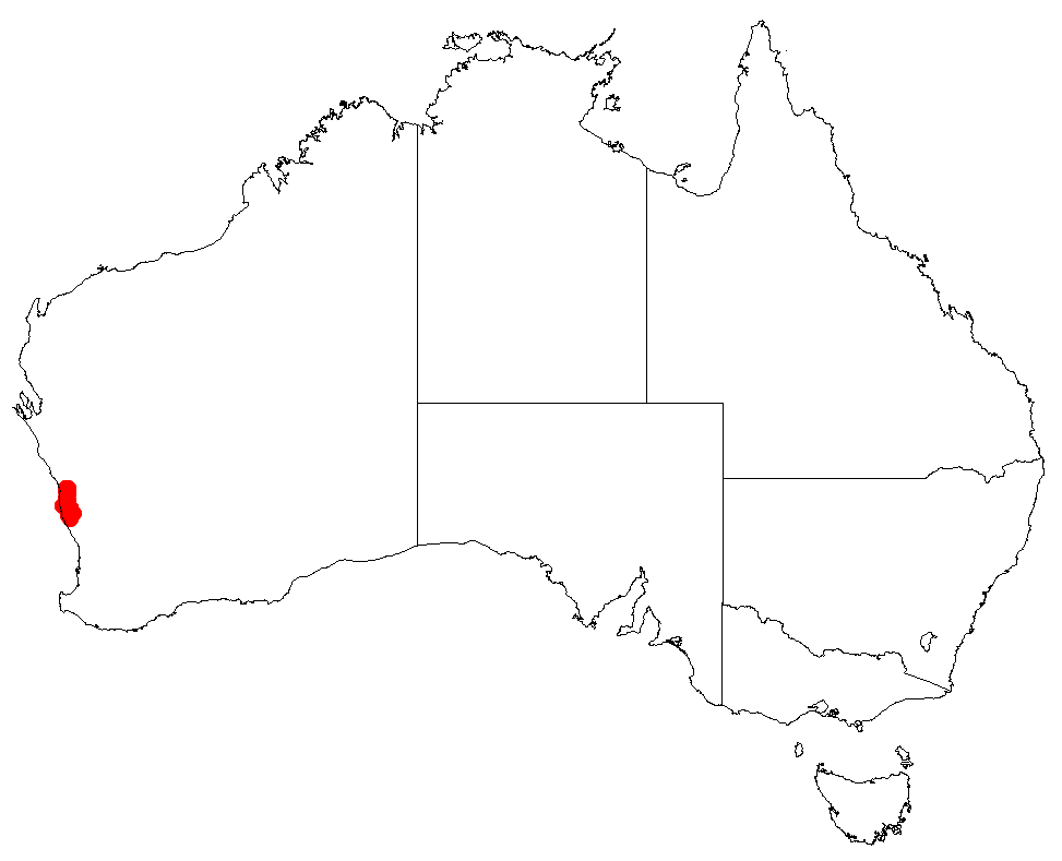 Persoonia filiformis Occurrence data downloaded from Australasian Virtual Herbarium on 30 October 2018 from